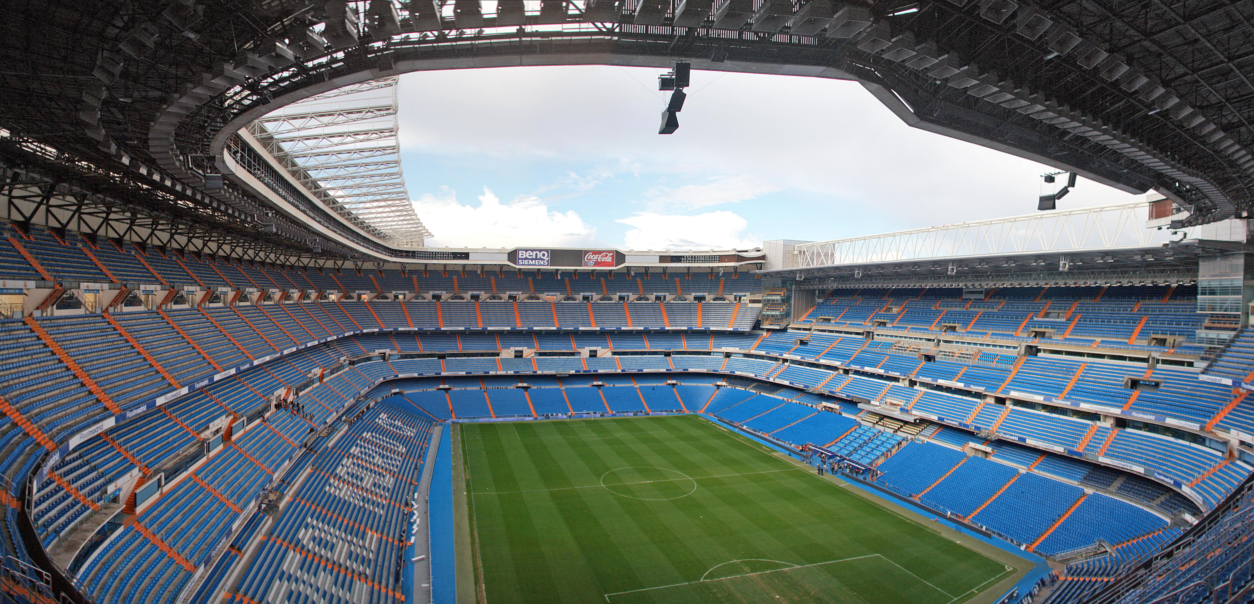 A panorama of the Santiago Bernabeu stadium in Madrid, Spain, made up of 4 vertical shots and part of a fifth horizontal shot. Shot w/ a Canon Digital Rebel XT and a Sigma 18-200 F3.5 lens. Stitching and editing done in the GIMP.